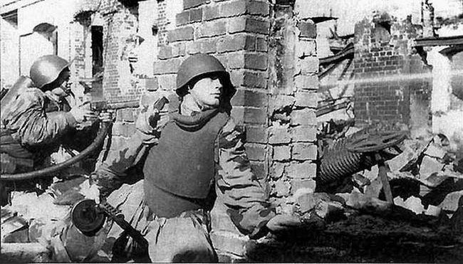 Soviet steel breastplate SN-42. Armor = 2mm. Weight = 3.5 kg